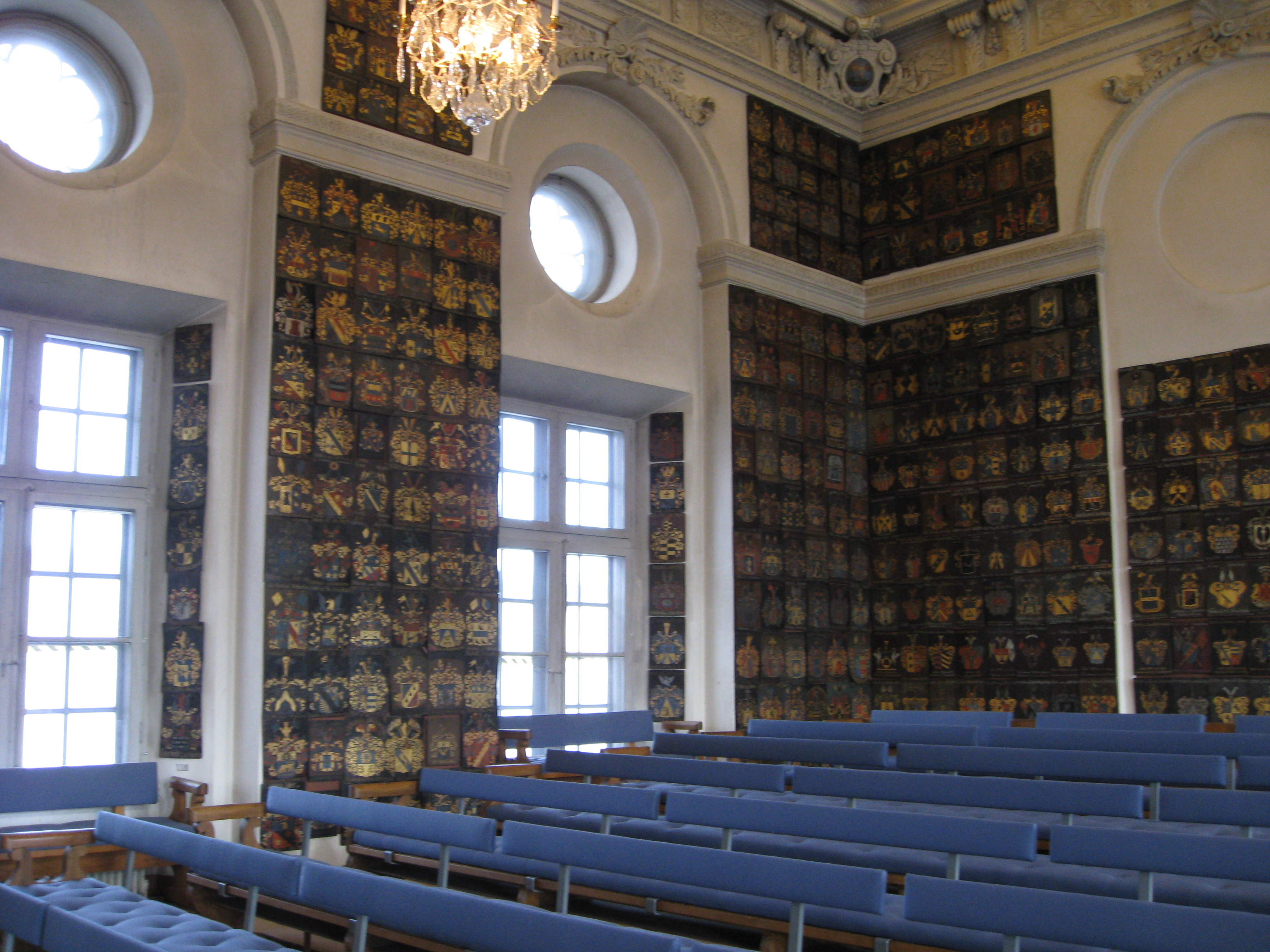 Coats of Arms of Swedish nobility